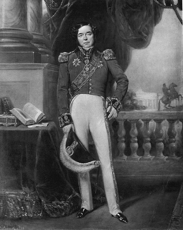 Kniaz' Petr Ivanovich Tiufiakin, 1769-1845